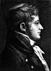 Joseph Hopper Nicholson, US Representative from Maryland